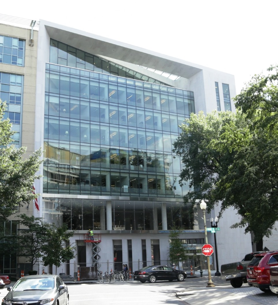 The Center for Strategic and International Studies, a bipartisan foreign policy think, located at 1616 Rhode Island Avenue NW, Washington, D.C.